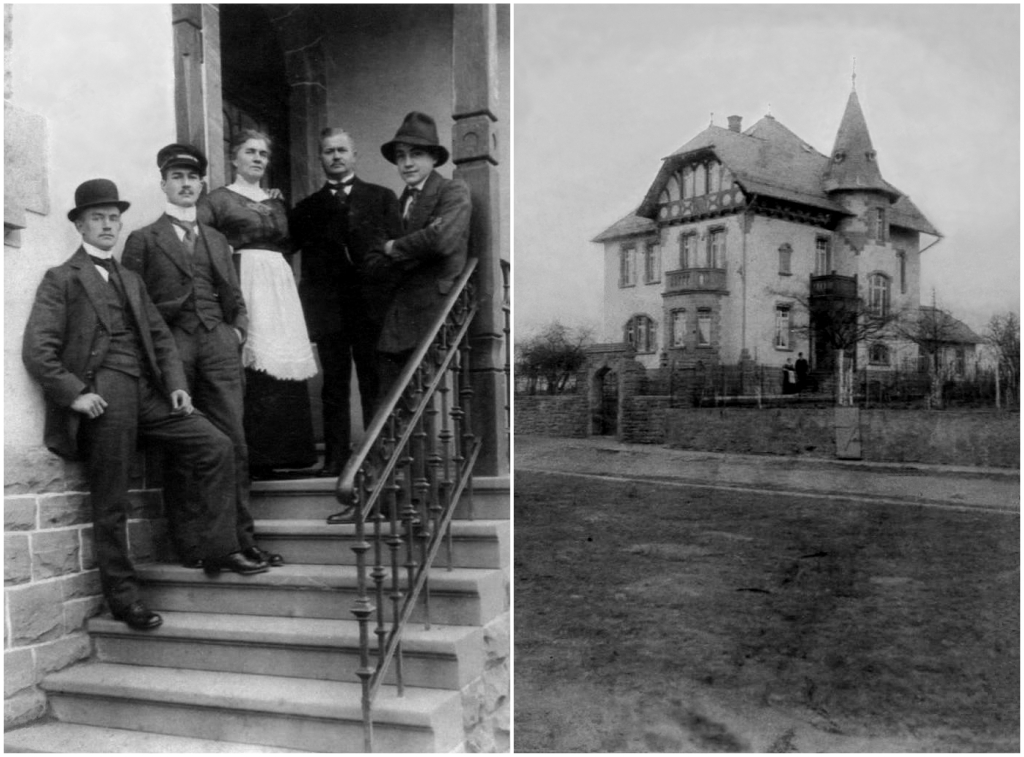 This is a picture of Anton Flettner in his boyhood home in Eddersheim, Germany (today a district of Hattersheim am Main). Anton is the youngest one on the far right. The home was used as a local government building, but more recently has been used as a nursery school. (Family photo; E. Graven) Specifically, the home is located near the River Main at Kornmarktstrasse 4, Eddersheim.